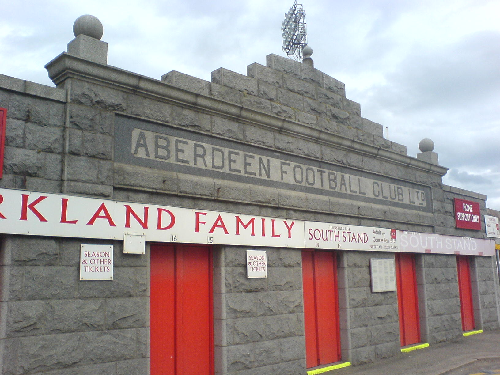 Photo taken by Euan Bain (User:Discosebastian) in Aberdeen on August 7th, 2006. Category:Aberdeen